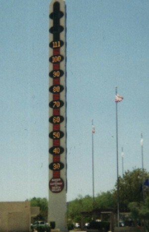 World's tallest thermometer, Baker, California.